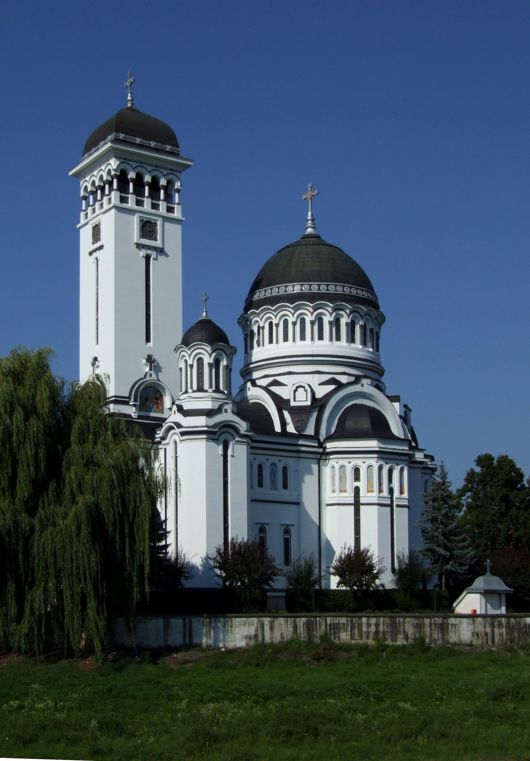 Orthodox Trinity Church in Sighişoara (Segesvár, Schäßburg), Romania.